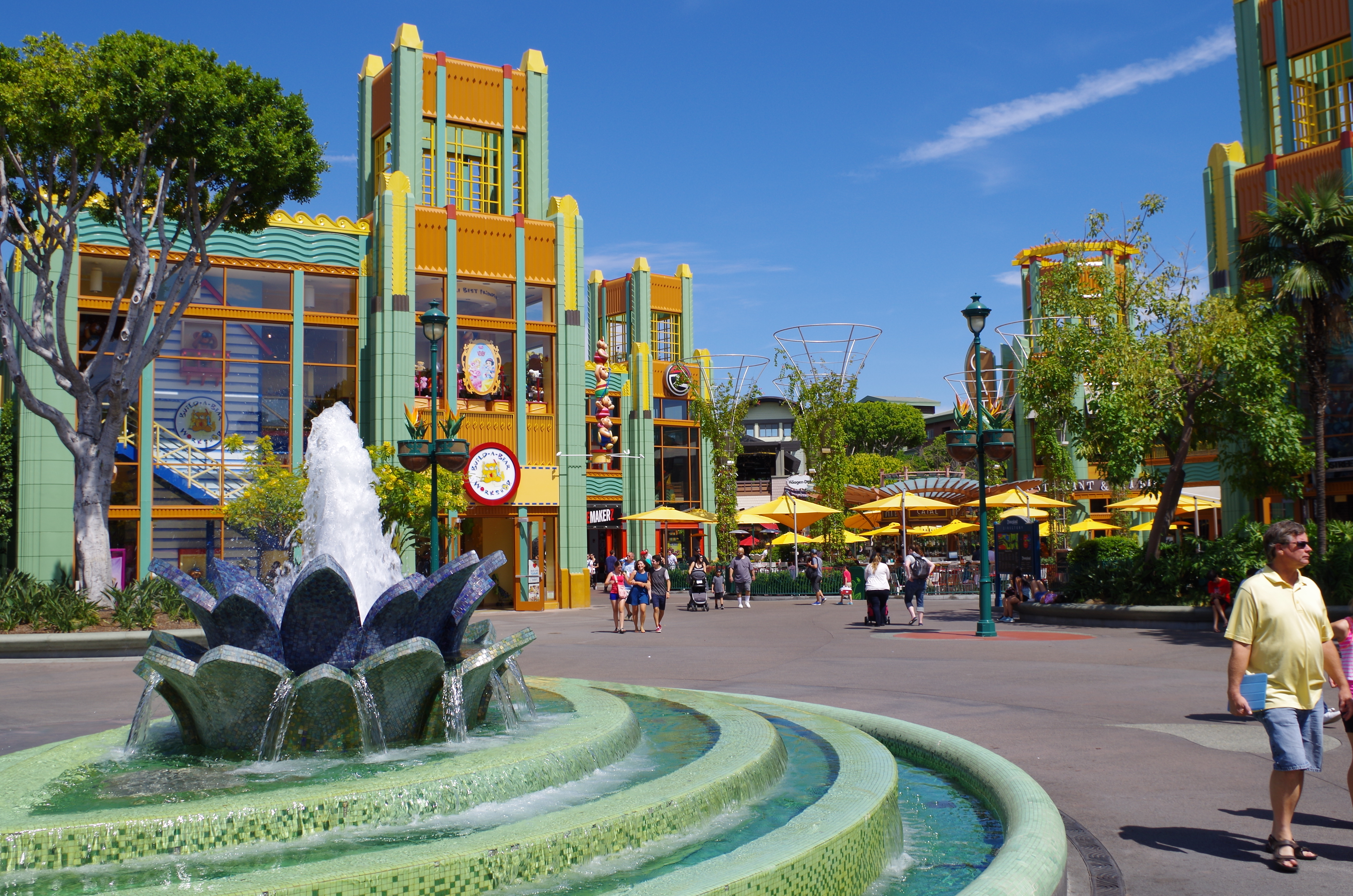 Fountain and Build-A-Bear Workshop at Downtown Disney in Anaheim, California.